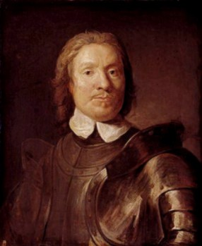 Portrait of Oliver Cromwell, Lord Protector of the Commonwealth of Britain